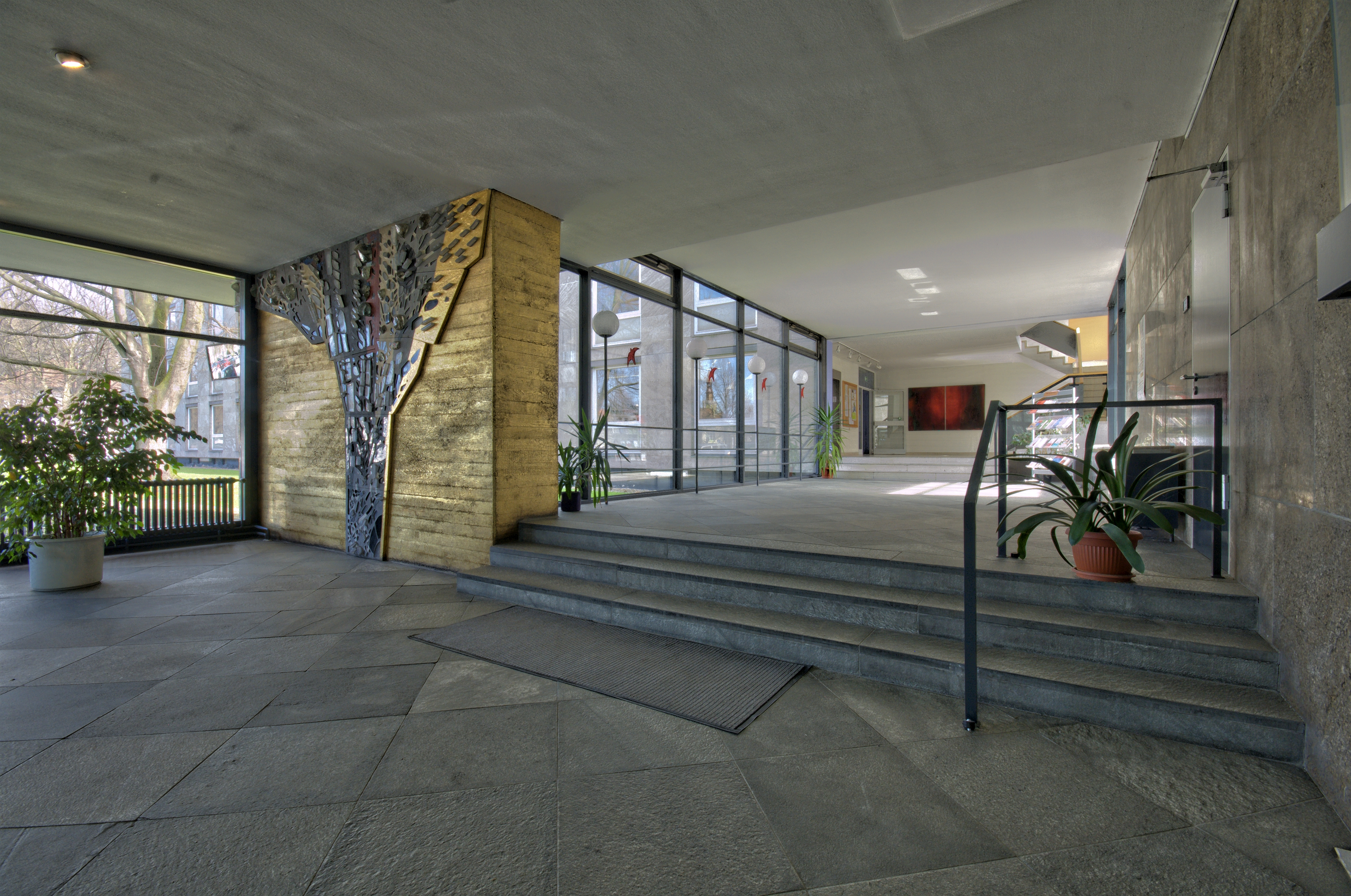 Wikipedia im Landtag – Niedersachsen 17. bis 18. April 2013 in Hannover Fragen zur Nachnutzung Wenn Sie Fragen zur Nachnutzung dieses Bildes haben, können Sie sich jederzeit gern an wenden Personality rights warning This work depicts one or more identifiable persons. The use of depictions of living or deceased persons may be restricted by laws regarding personality rights. The extent of these restrictions depends on jurisdiction. Personality rights restrictions apply independently of copyright. Before using this content, please ensure that the intended use does not infringe any personality rights under applicable laws. You are solely responsible for ensuring that you do not infringe someone else's personality rights. See our general disclaimer.